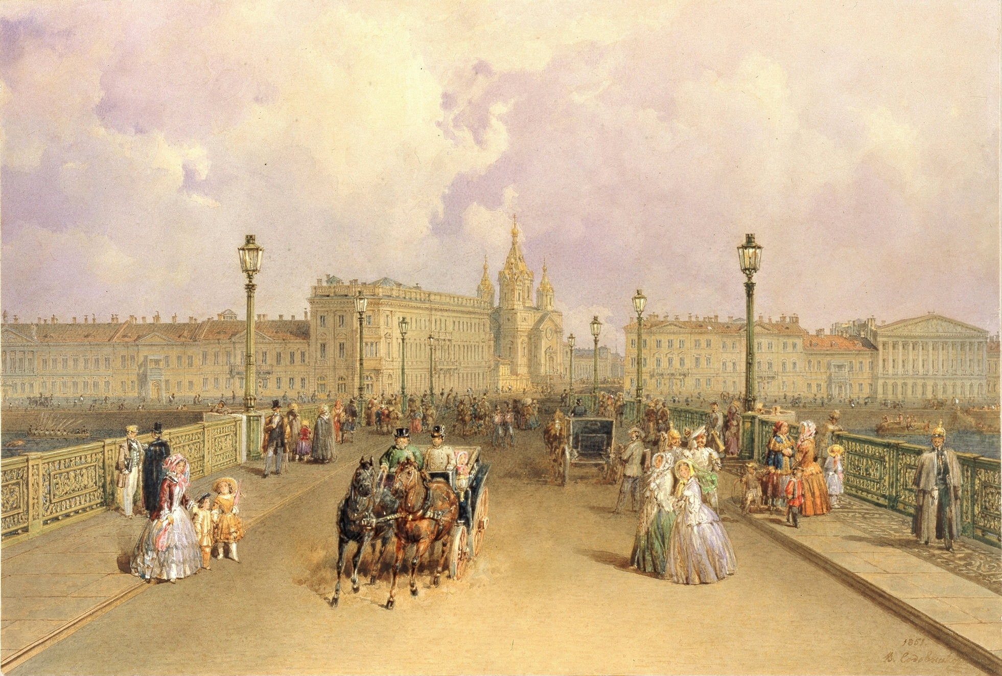 View of the Blagoveshchensky Bridge in Saint Petersburg.